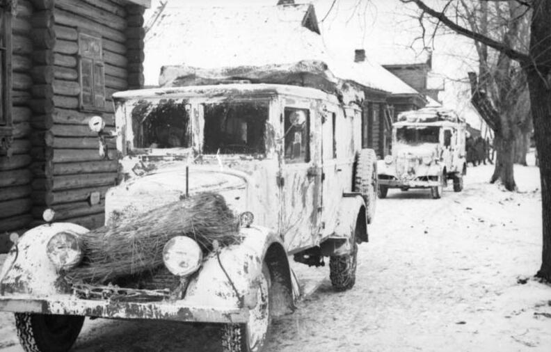 Phänomen Granit 25H & Adler W61K